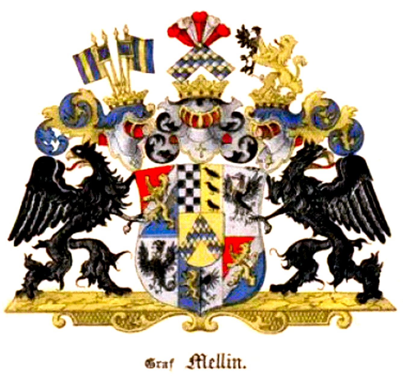 Coat of arms of the Counts of Mellin family.